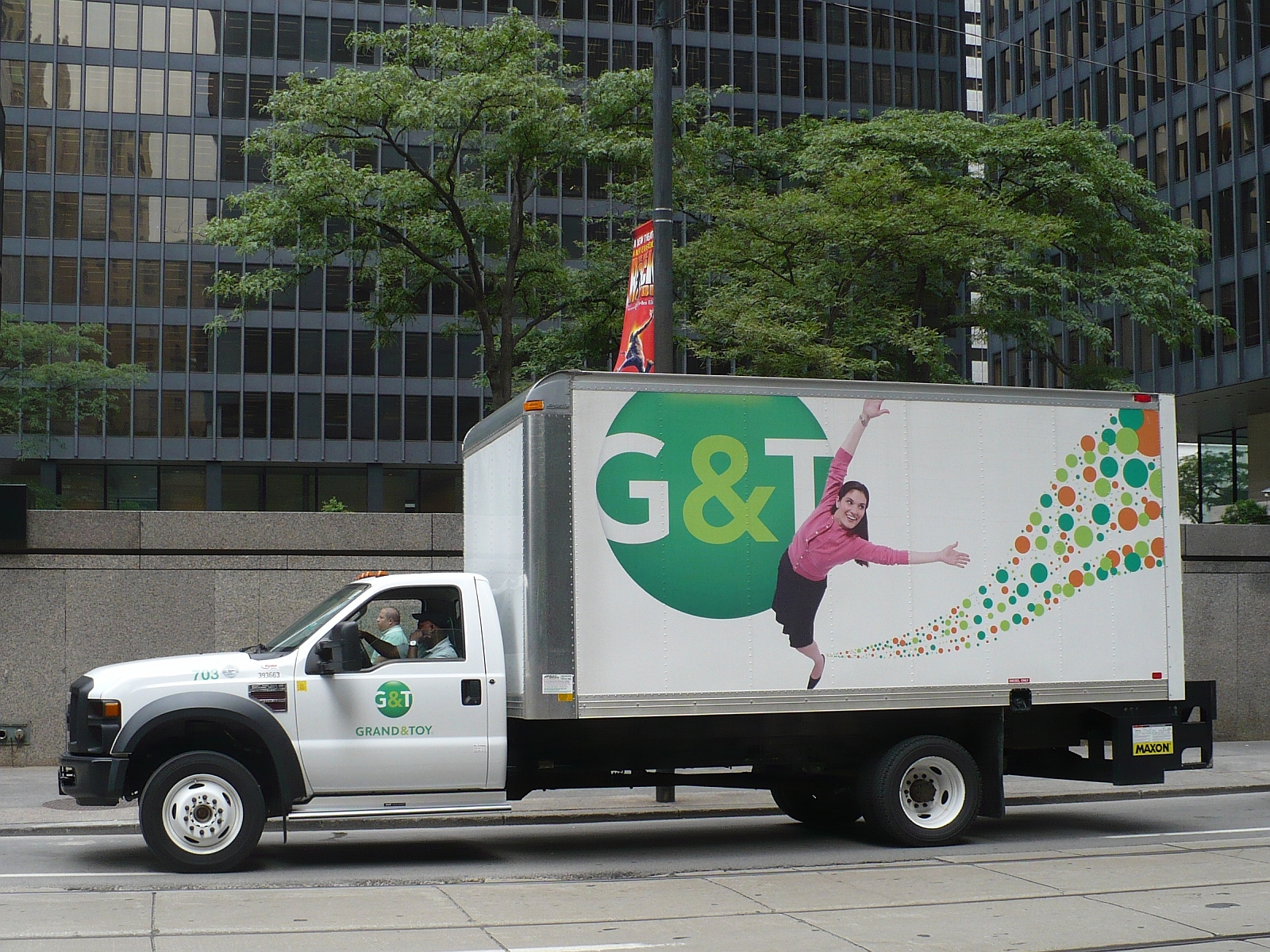 Grand & Toy truck delivering to the TD Centre in Toronto